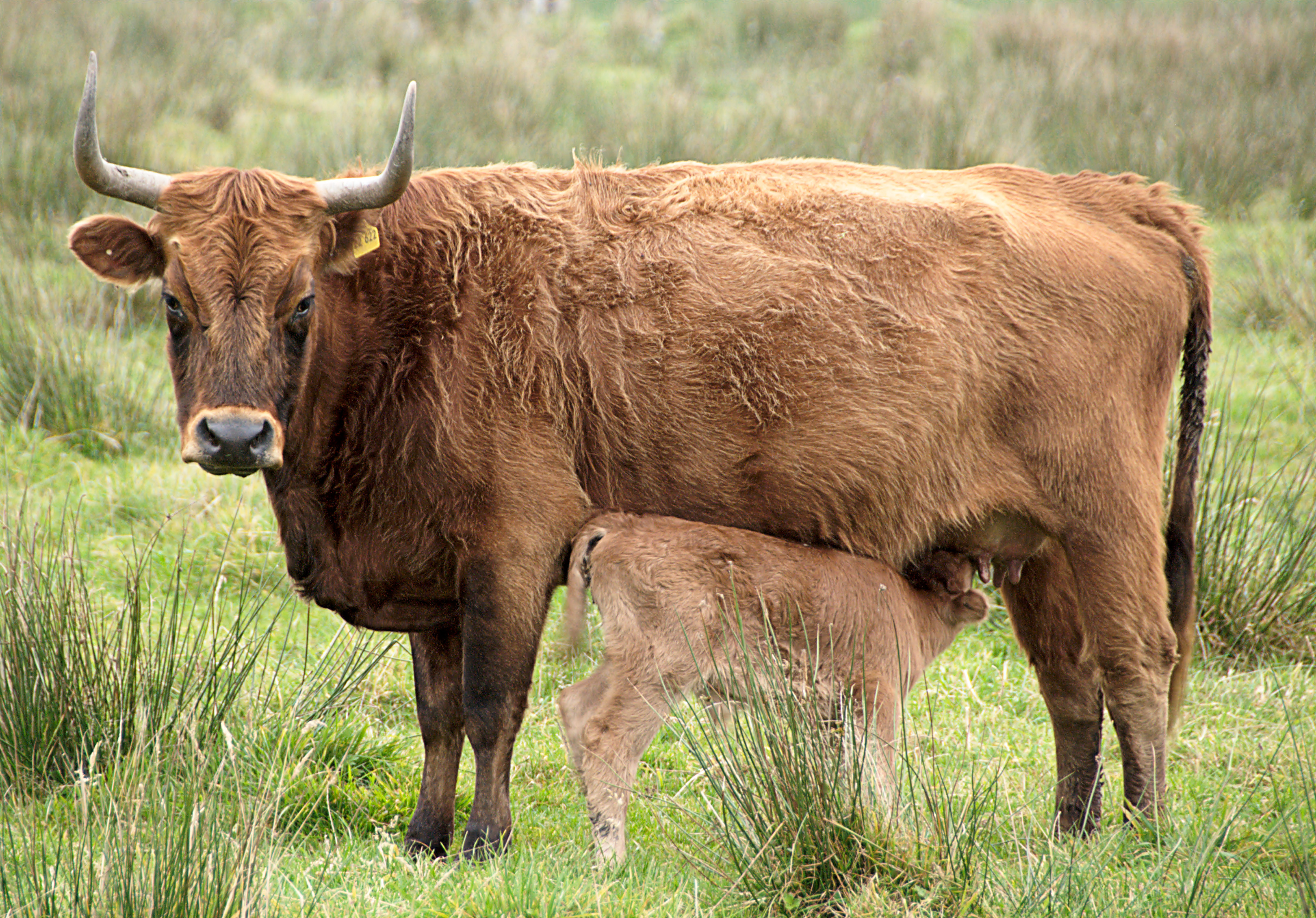 Bos taurus taurus (Heck cattle). Location: Naturerlebnisraum Rieselfelder, Münster, NRW, Germany (Rieselfelder)